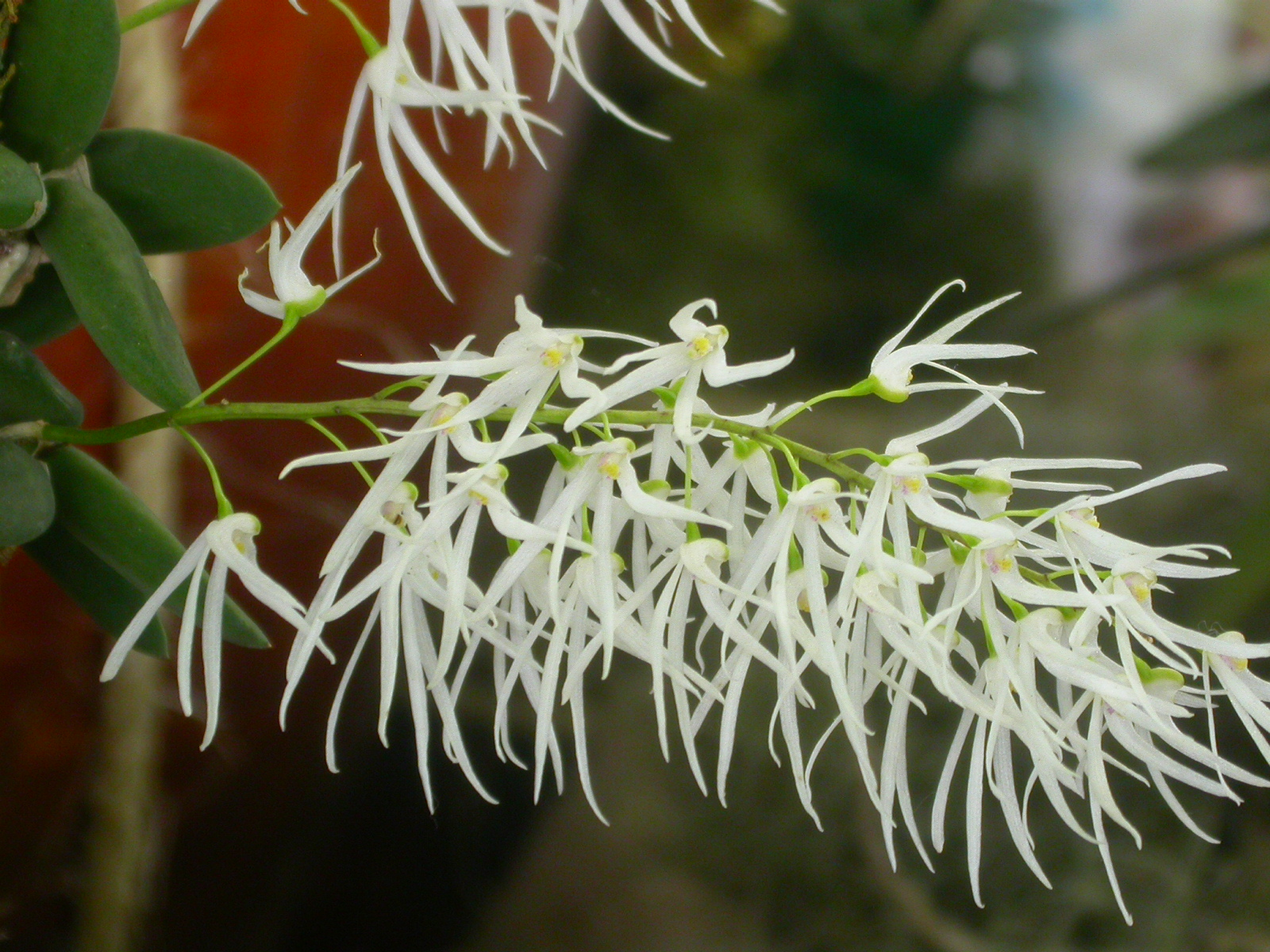 Dockrillia linguiforme